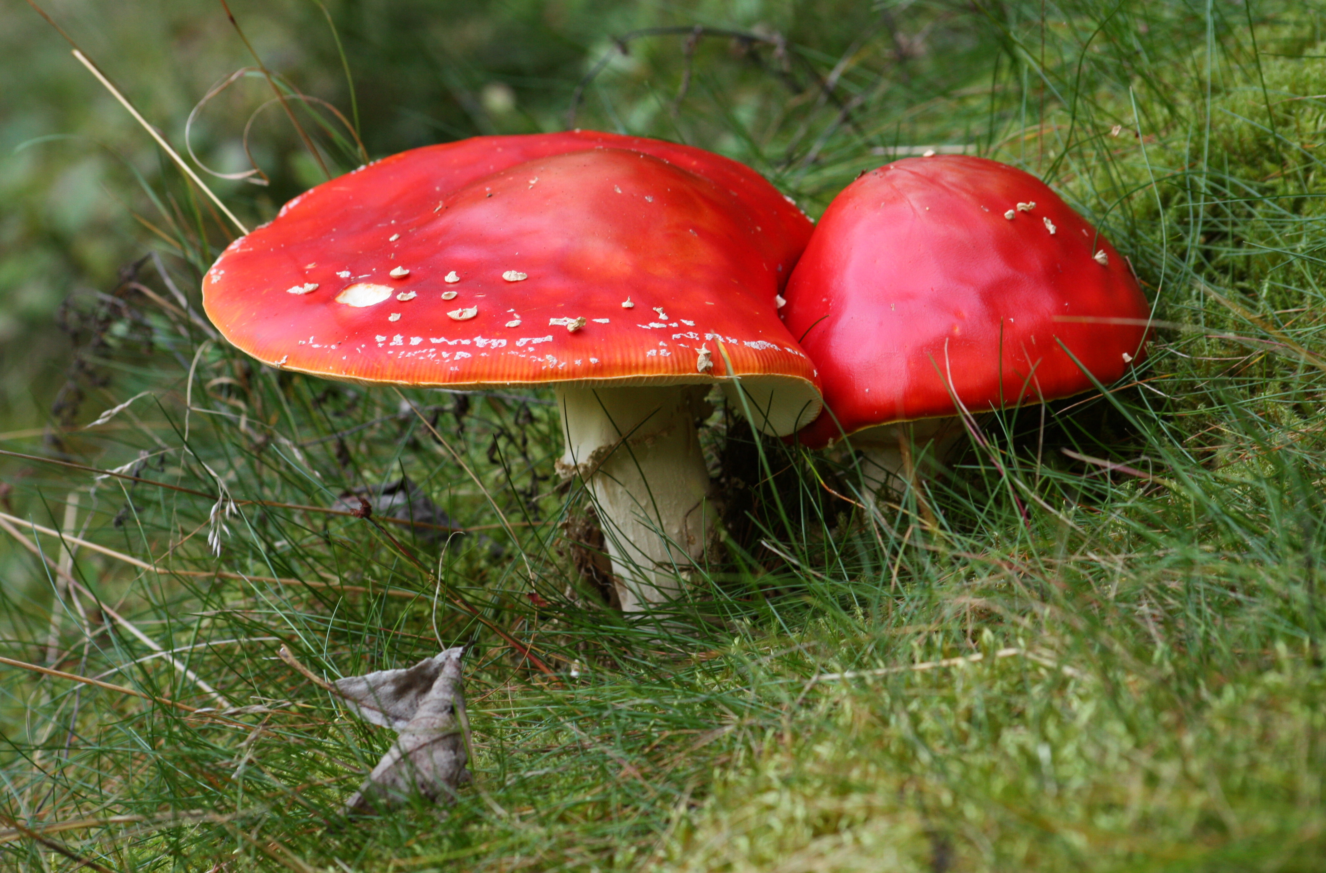 Amanita muscaria.Fungi from mountains in Slovakia.